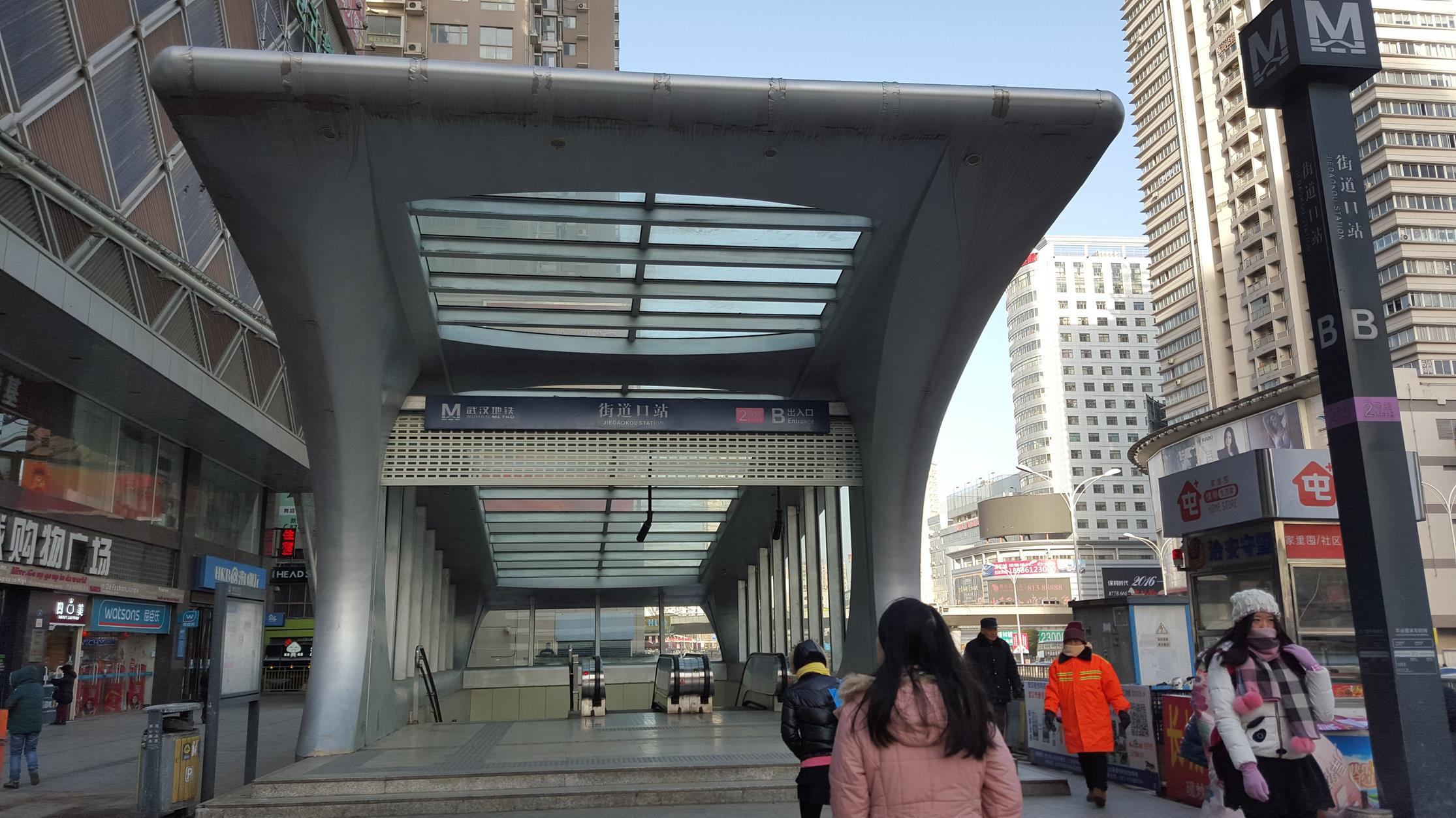 Entrance B of Jiedaokou Station, Wuhan Metro